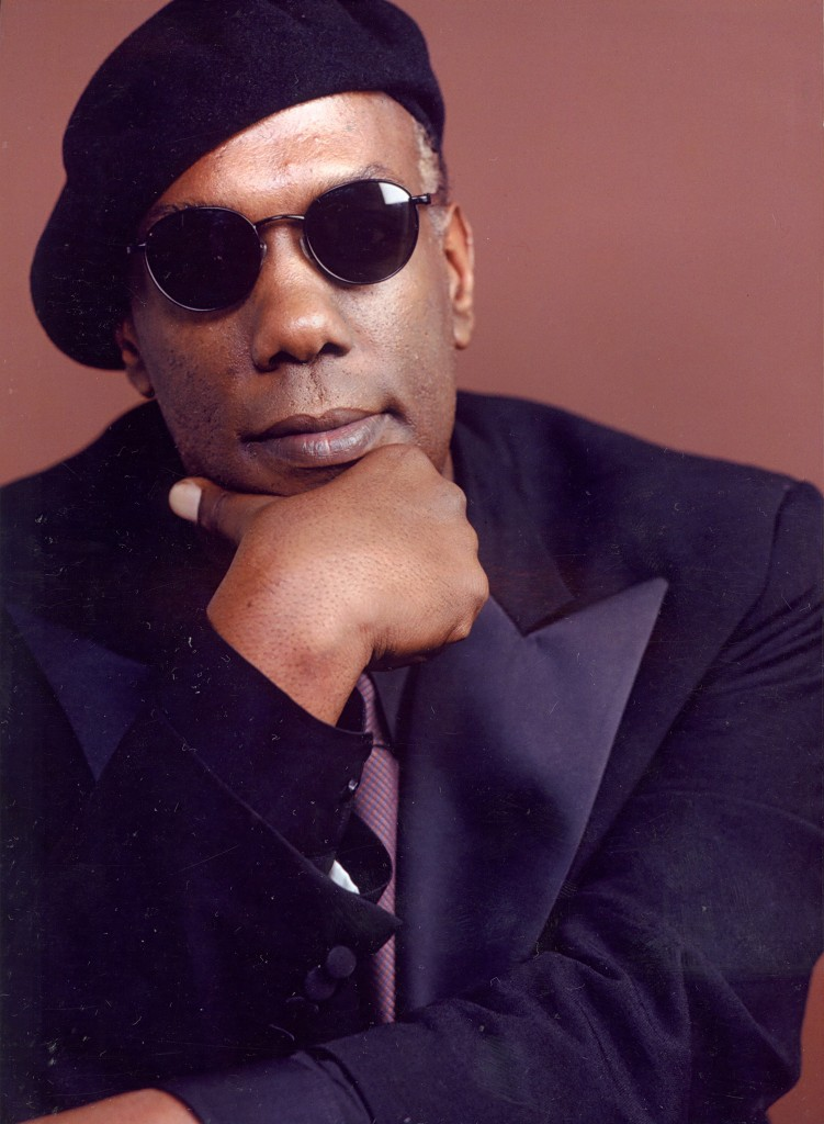 Yul Anderson